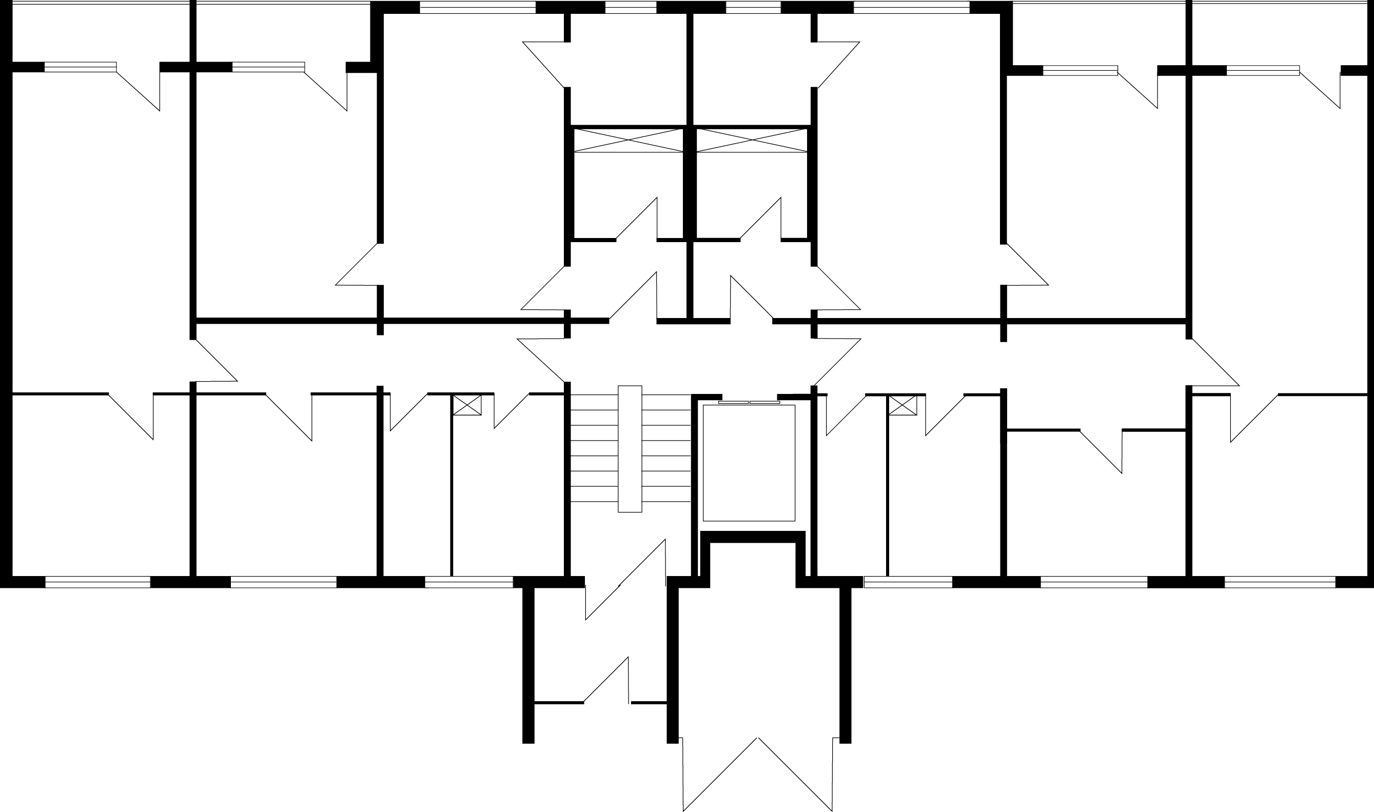 schematic ground-floor plan of prefab housing type M10 (East Germany)